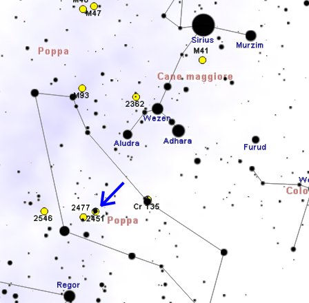 NGC 2451 map